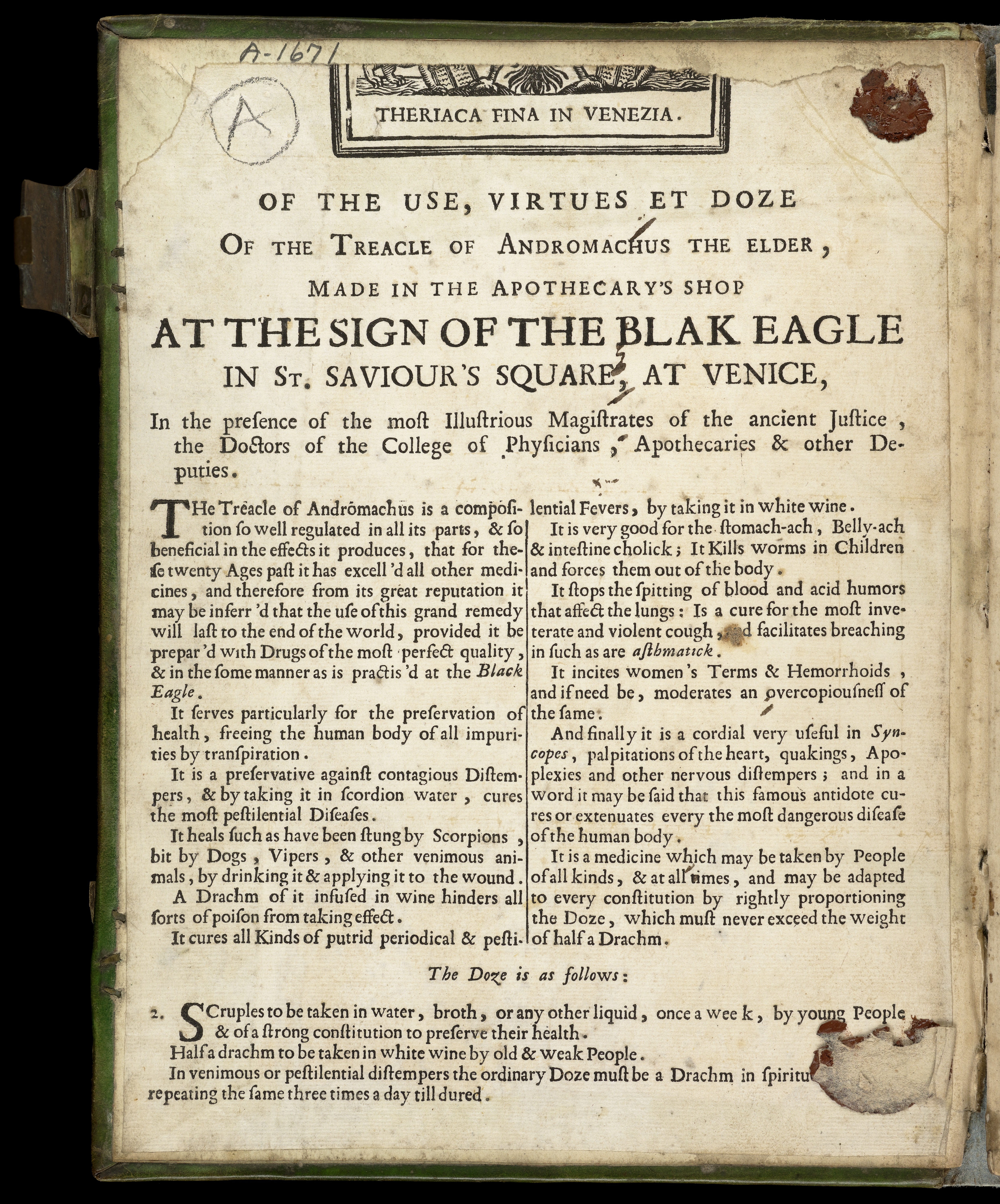 "Book of Receipts for Cookery and Pastry & c", inside cover Archives & Manuscripts